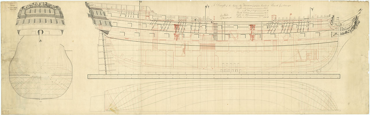 Scale: 1:48. Plan showing the body plan, stern board outline with decoration, sheer lines with inboard detail and figurehead, and longitudinal half-breadth for 'Warrior' (1781), a 74-gun Third Rate, two-decker, as built at Portsmouth Dockyard. Signed by George White [Master Shipwright, Portsmouth Dockyard, 1779-1793].